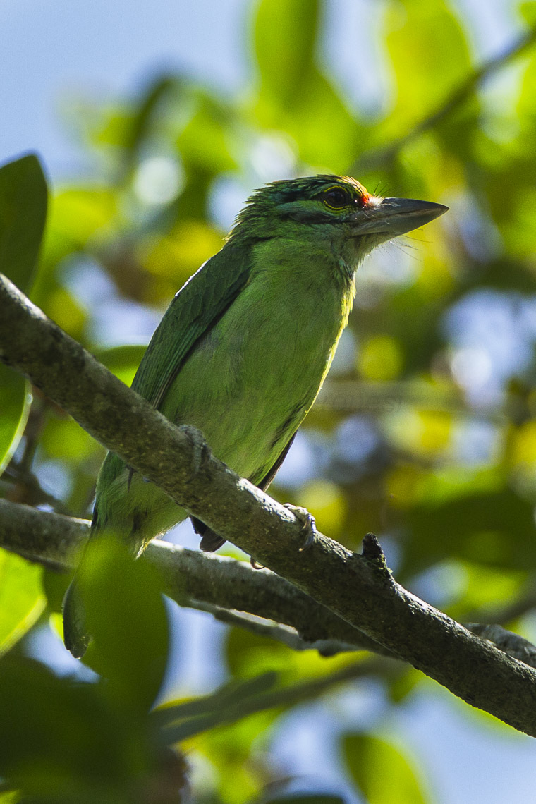 Moustached Barbet - Thailand_S4E5744